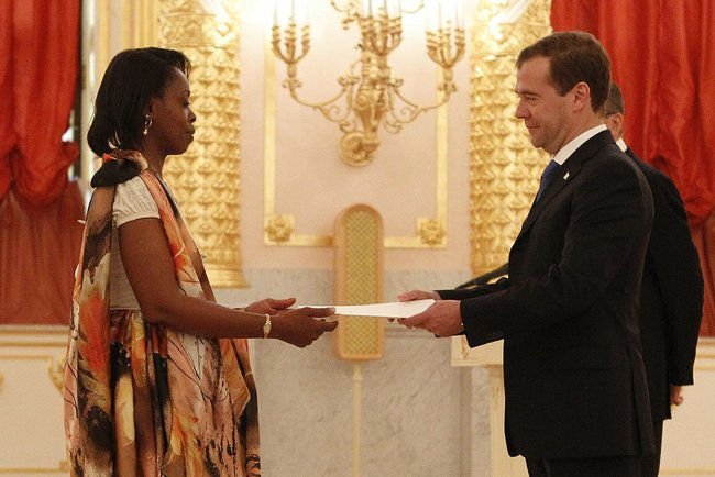 Ambassador of the Republic of Rwanda Christine Nkulikiyinka presents her letter of credence.